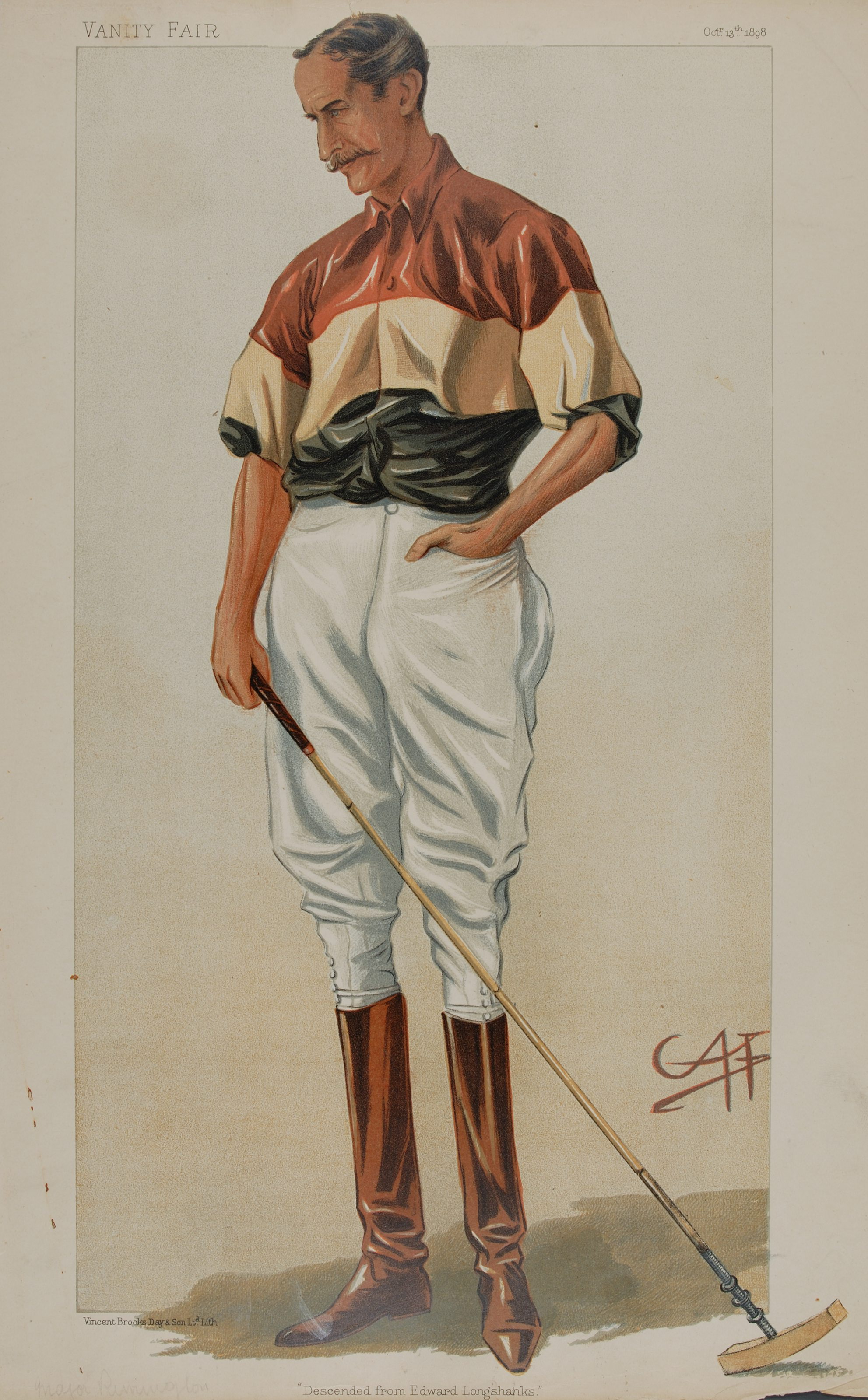 Caricature of Major Michael Rimington. Caption read "Descended from Edward Longshanks".